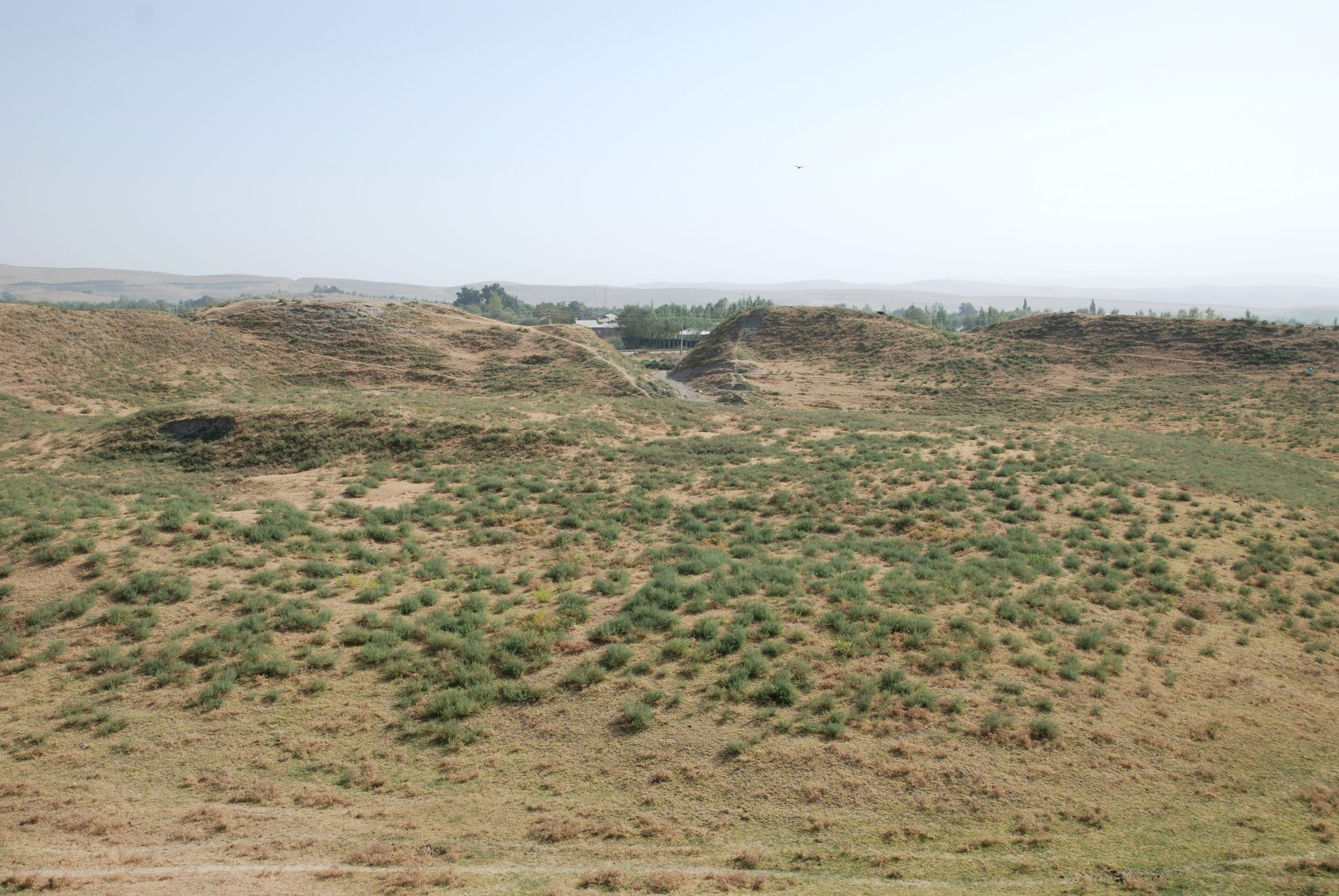 Zoli-Zard near Korez village, 4 km north of Danghara